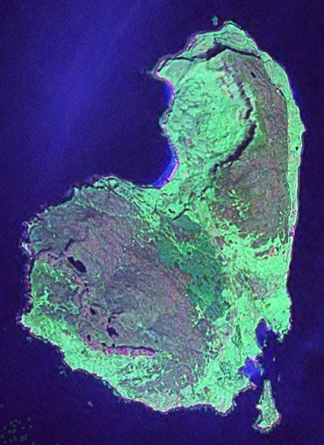 Screenshot of Eigg (Inner Hebrides, Scotland) from World Wind software displaying NASA Landsat imagery. The website says "The Landsat Global Mosaic, Blue Marble, and the USGS raster maps and images are all Public Domain." (